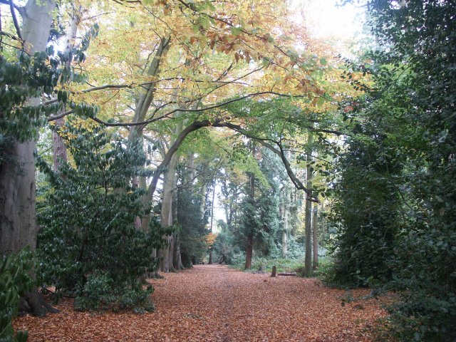 Pine Woods Woodhall Spa. In the search for coal during the nineteenth century, pine trees were grown here for pit-props. During the digging spa water was found and formed the basis of the spa resort at Woodhall Spa.